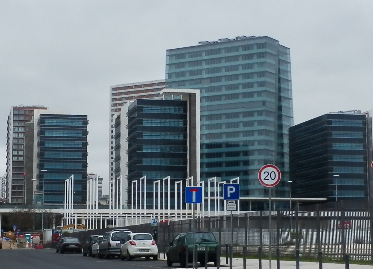 Seen from Rua Bojador